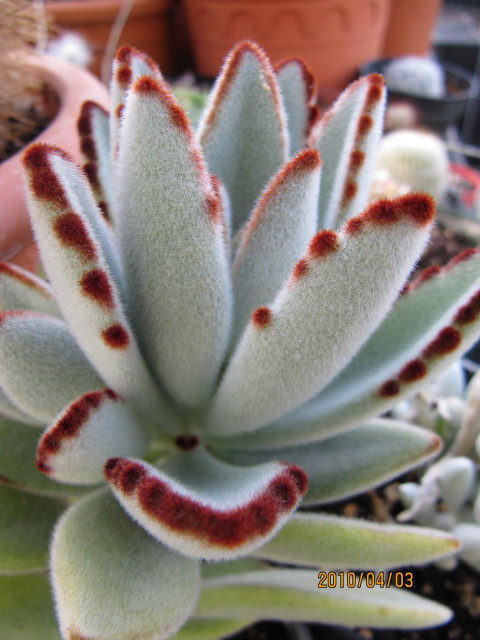 Kalanchoe tomentosa, or Panda Plant, is a native of Madagascar. It is a beautiful succulent plant with dense white felt-like hairs covering the entire leaf. Leaf tips have shallow notches that are marked brown. With great age they will reach about 18 inches (45 cm) in containers and as far as I know they are not poisonous to animals or humans. They are hardy in USDA zones 9-12.